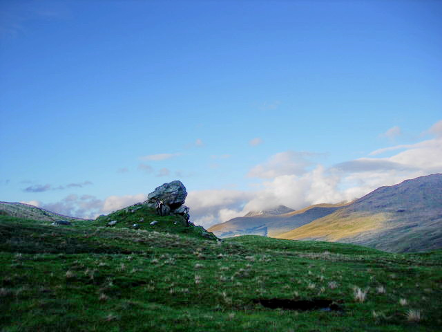 Clach nam Breatan, Glen Falloch, Scotland. G. W. S. Barrow notices this in The Kingdom of the Scots, p. 115. It may have marked the northern boundary of the Brythonic kingdom of Alt Clut (Dumbarton Rock), later Strathclyde. In later times it may also have marked the boundary between the counties Dumbarton and Perth. On the opposite, south, site of Glen Falloch is Allt Criche, the March Burn, another likely frontier of bygone days. Said traditionally to have been where the lands of the Scots, the Britons and the Picts met.